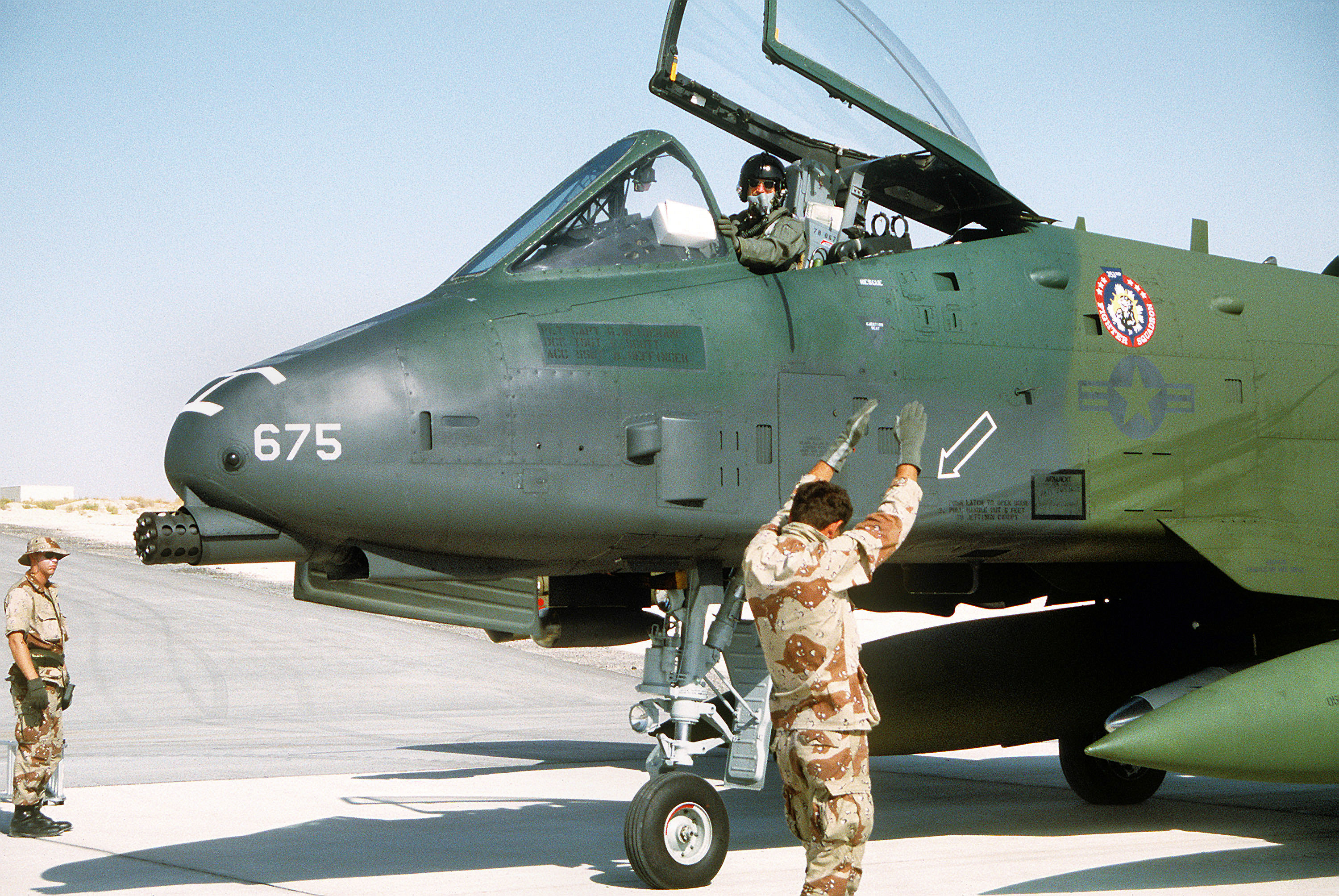 A ground crewman signals as the pilot of a 353rd Tactical Fighter Squadron (353rd TFS) A-10 Fairchild Republic A-10A Thunderbolt II 78-0675 aircraft brings his plane to a stop upon arrival at King Fhad International Airport, Saudi Arabia in support of Operation Desert Shield, February 1991.